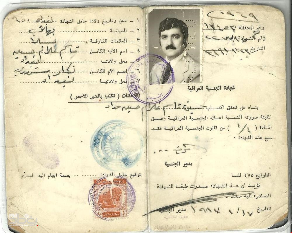 Certificate of Iraqi Nationality issued in 1969 showing the name of the religion "Baha'i"